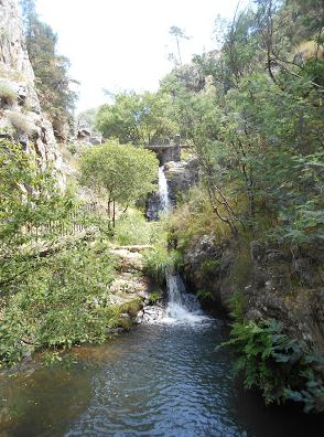 Penedo Furado Waterfall